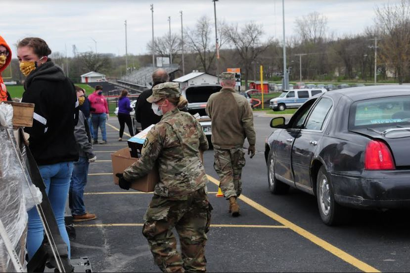 Sgt. Samantha Wilson, an Iowa Army National Guard Soldier with the 248th Aviation Support Battalion, works with community volunteers from Charles City, Iowa, to deliver much needed food during the COVID-19 pandemic. Wilson helped deliver food from the Northeast Iowa Food Bank in Waterloo, Iowa, to a satellite location at the local high school in Charles City, Iowa.